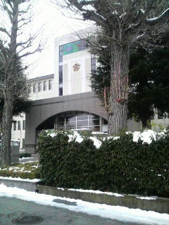 Prefectural high school of Suzaka